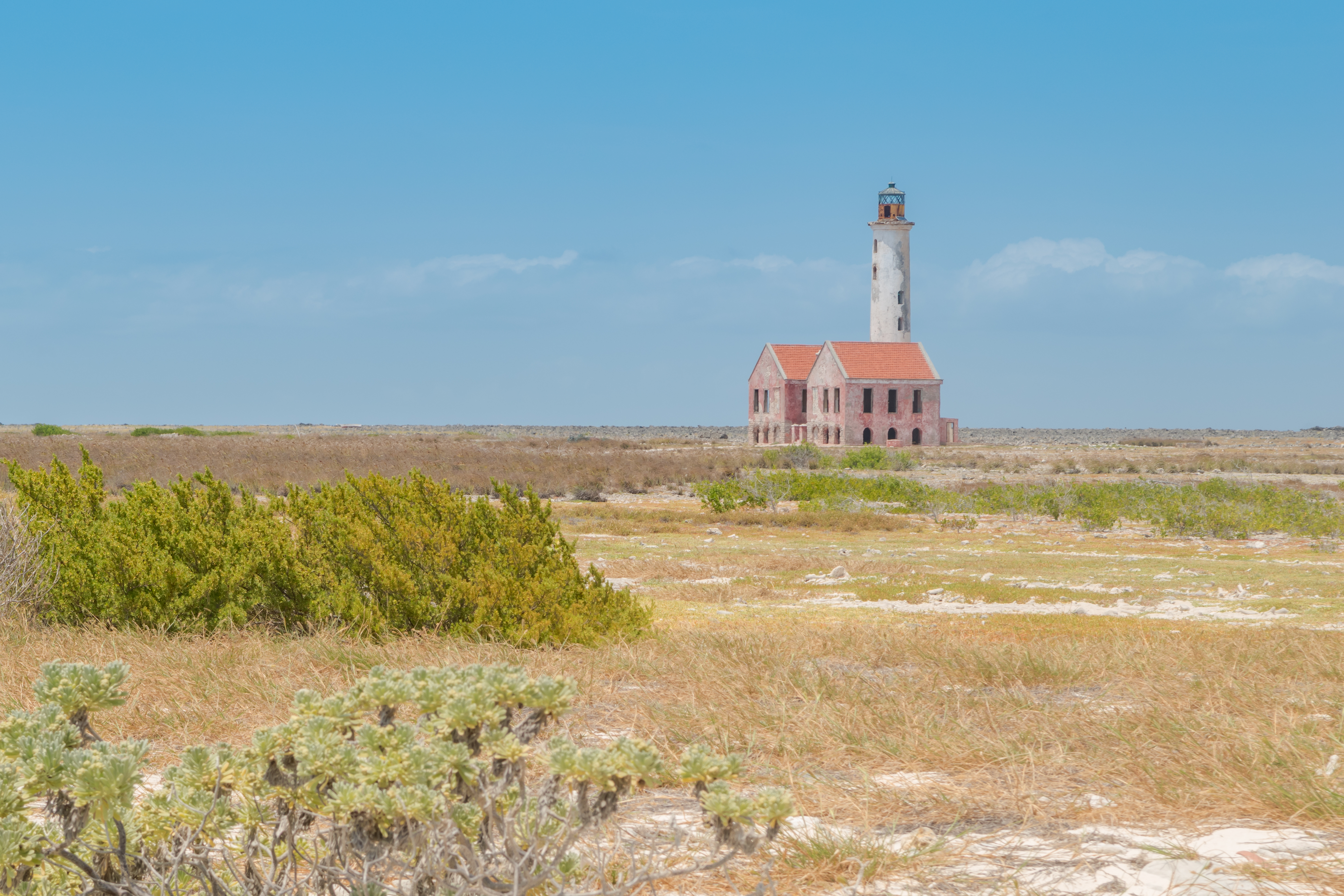 The lighthouse at Klein Curacao Curacao